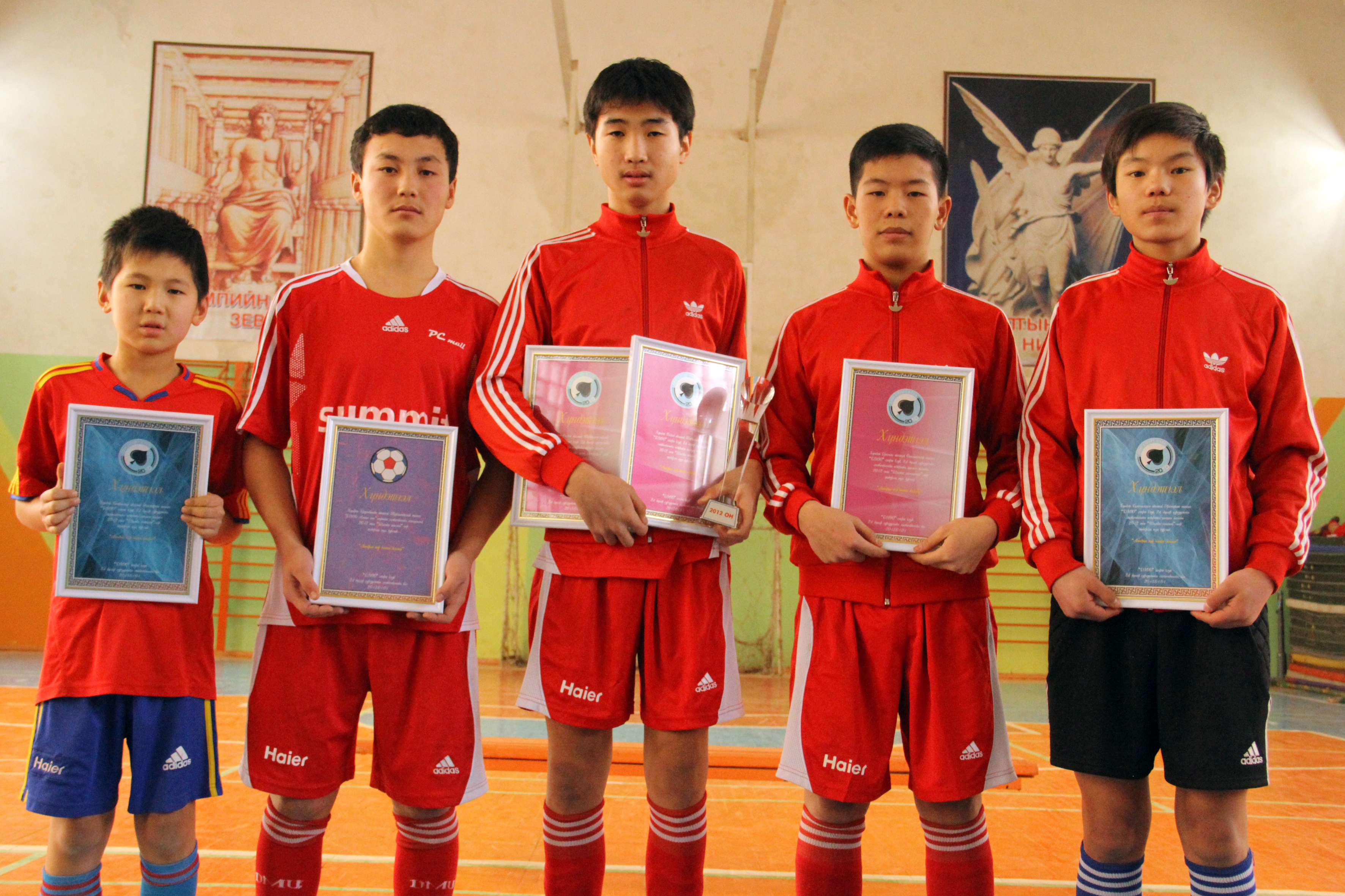 2013.01.01. "ДМЮ" клүбийн 2012 оны шилдгүүд. Зүүн гар талаас оны шилдэг довтлогч Б.Энхжаргал, "Алтан лиг" тэмцээний оны шилдэг тоглогч Ц.Түвшиндалай, оны шилдэг хагас хамгаалагч бөгөөд тоглогч Ө.Төрбилэгт, оны шилдэг хамгаалагч Ц.Отгонтэнгэр, оны шилдэг хаалгач Б.Эрдэнэбат.